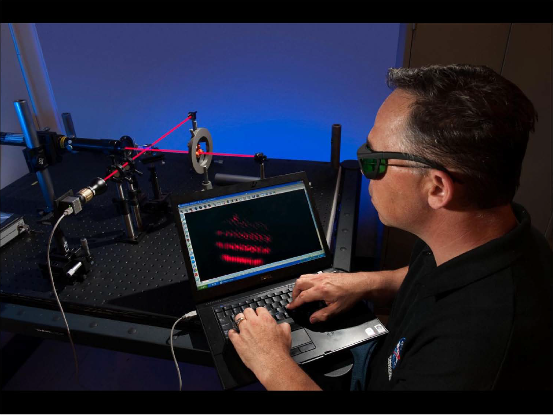 Dr. Harold “Sonny” White at the interferometer